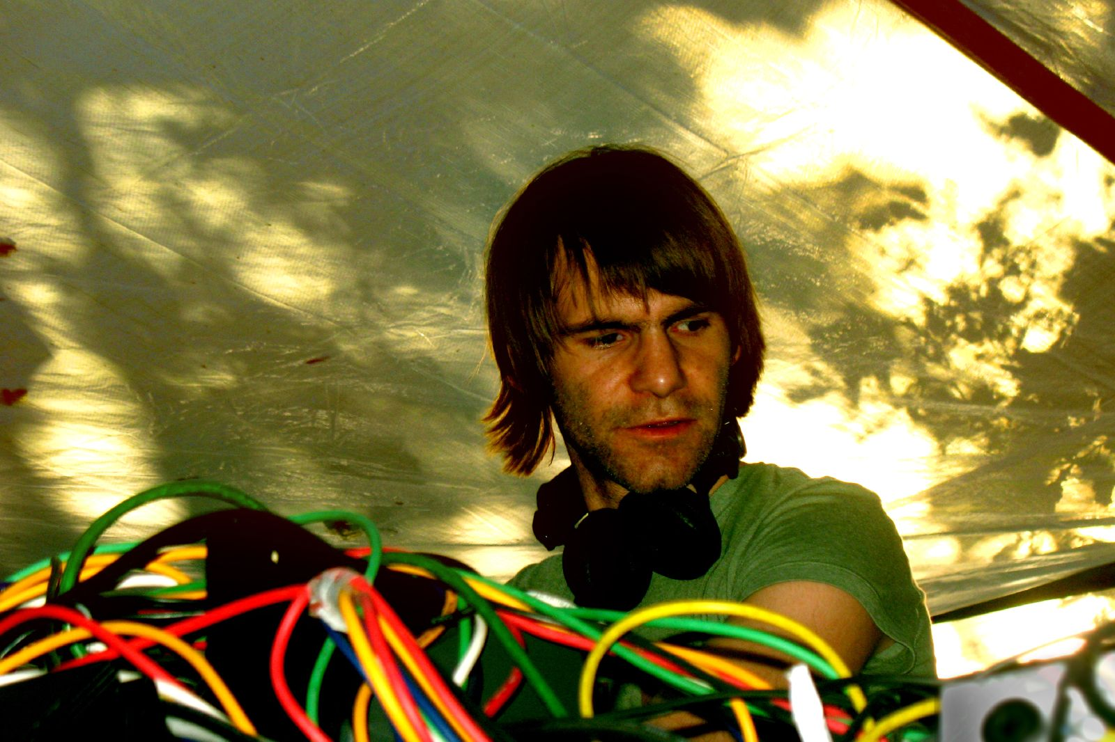 Gabriel Ananda DJing at an open air Afterhour (at the "Insel Berlin" club, Berlin)